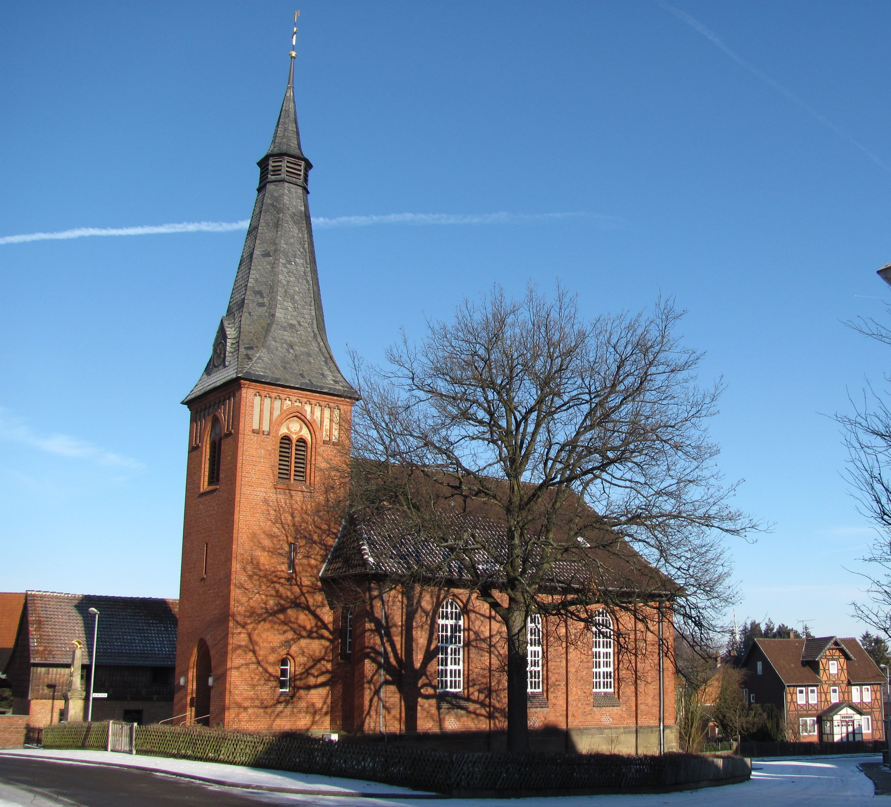 Protestant Church, Holle-Sillium near Hildesheim, Lower Saxony, Germany.